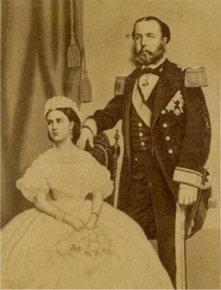 Maximilian and Carlota, emperors of Mexico